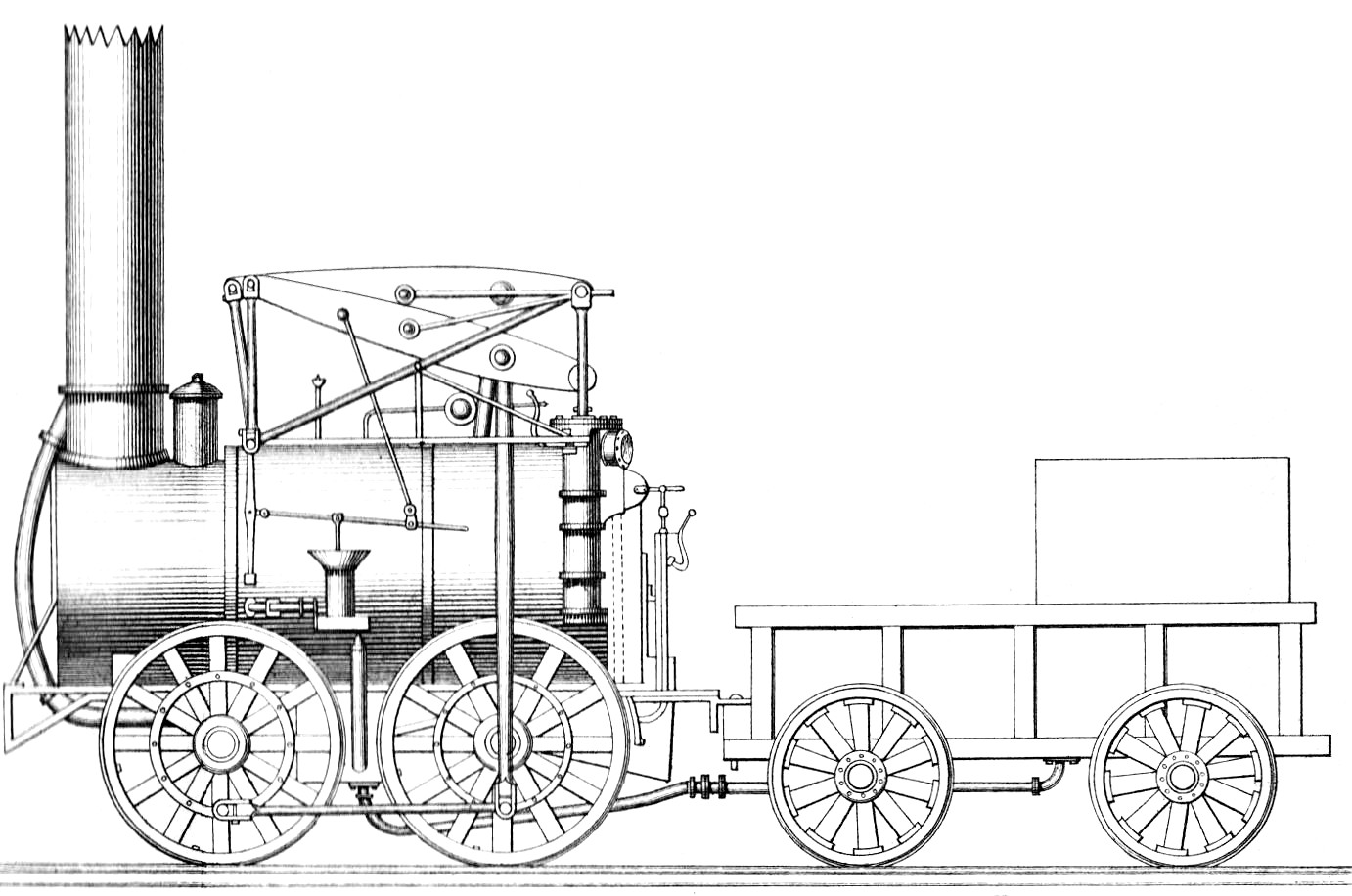 Please note that in the book of Brosius he names this one as "John Bull" however this is not the John Bull locomotive, even though J. Brosius claims that it is, but it is the Stourbridge Lion